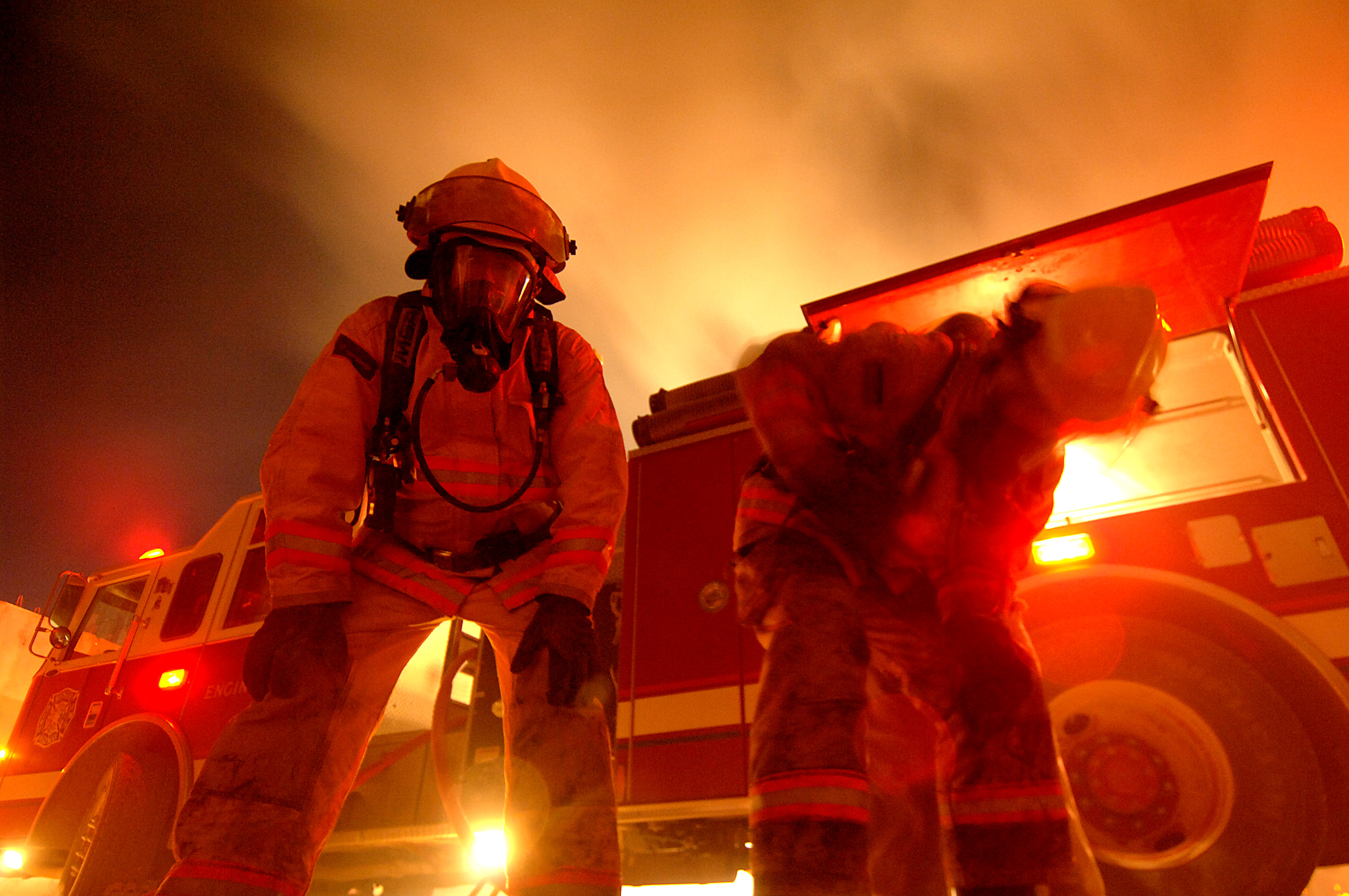 Firefighters Andrew Brammer (right) and Bobby Calder (left) from contractor Wackenhut Fire and Emergency Service replace their oxygen tanks while fighting a fire at Forward Operating Base Marez in Mosul, Iraq.